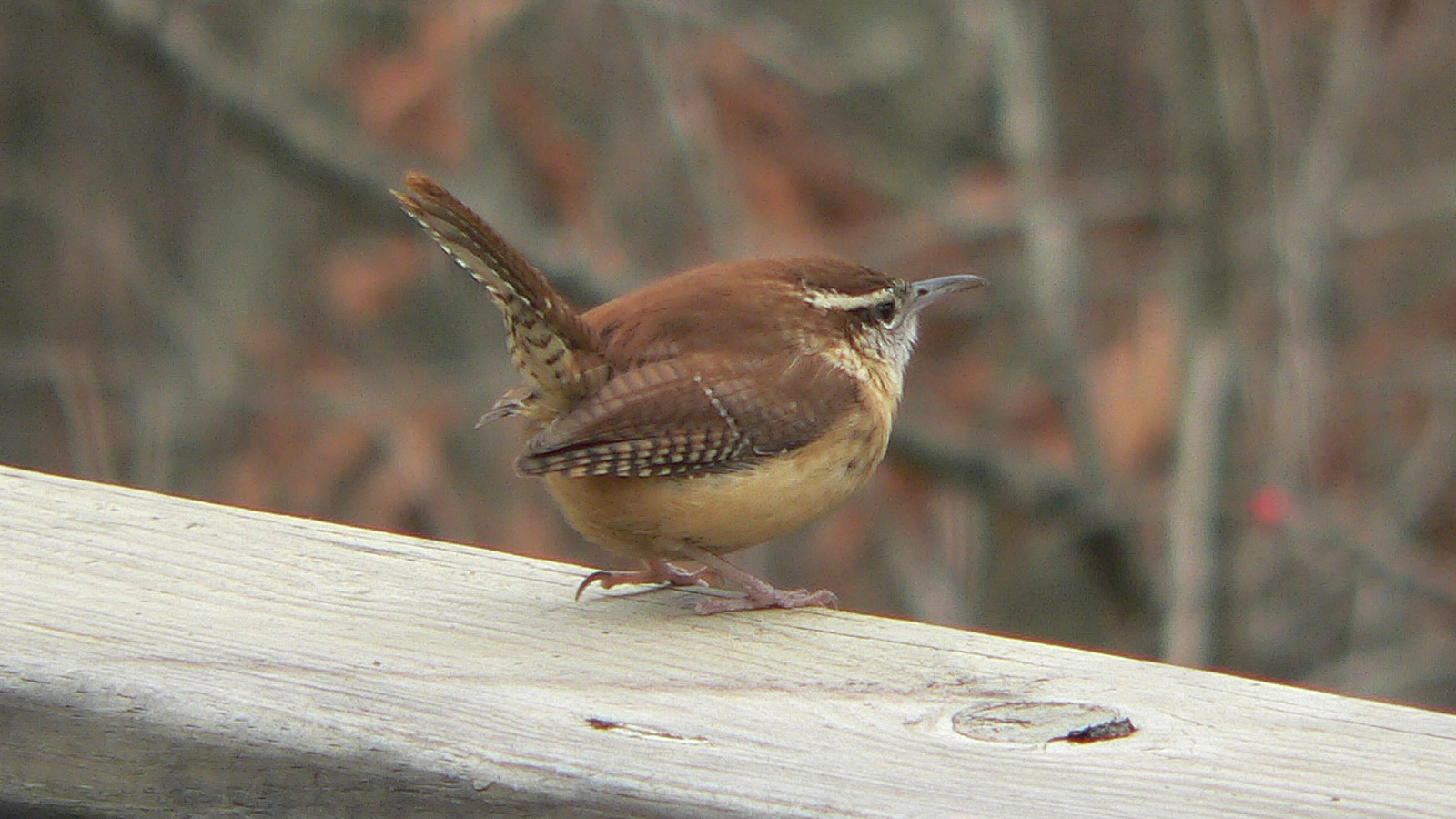 A Carolina Wren (Thryothorus ludovicianus) on a rail.Photo taken with a Panasonic Lumix DMC-FZ20 in Johnston County, North Carolina, USA.